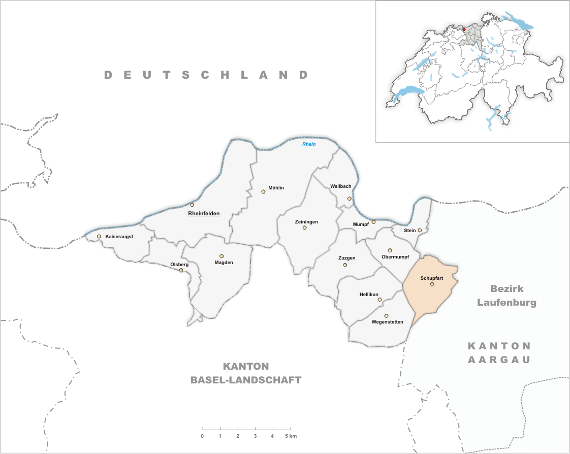 Municipality Schupfart